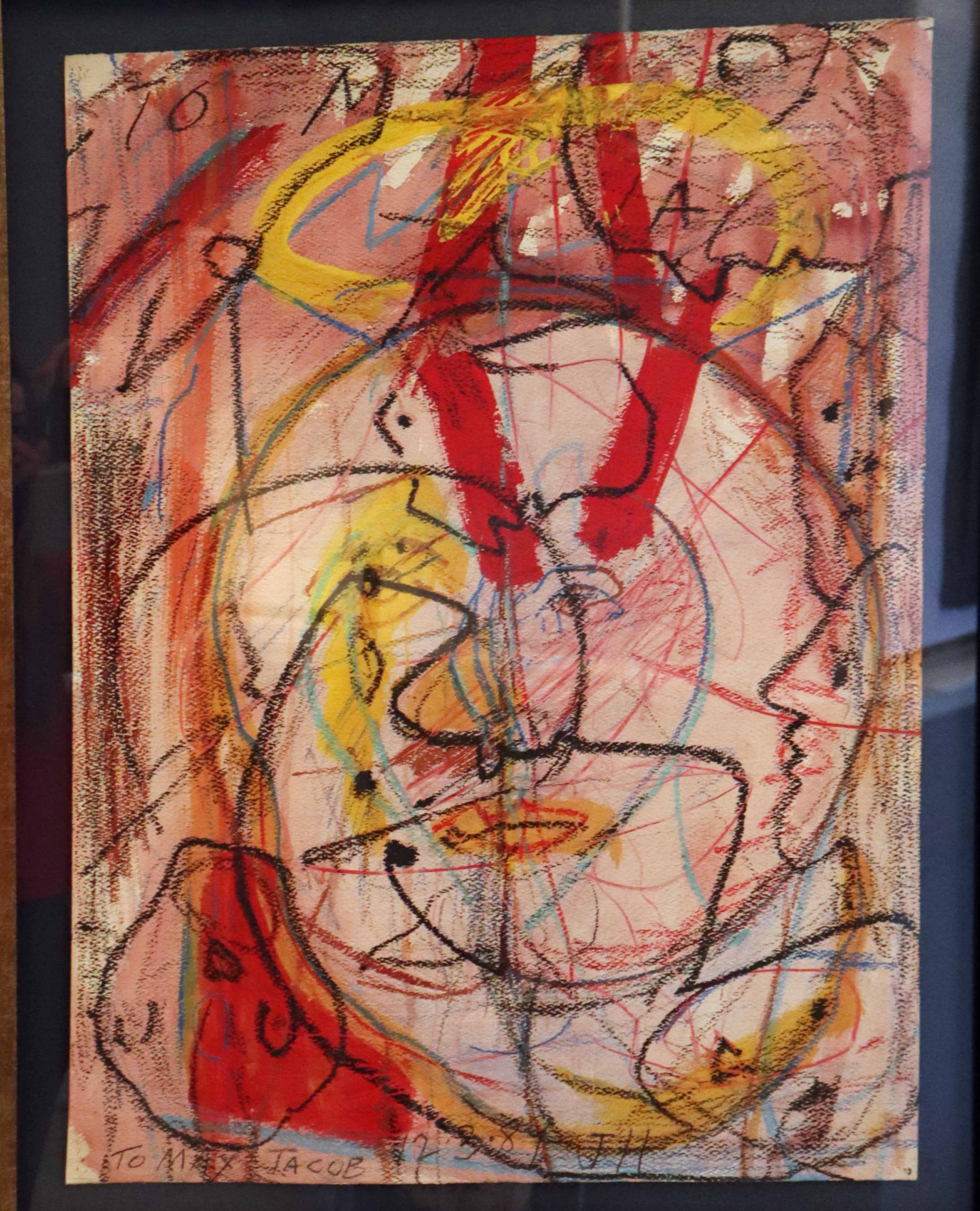 "To Max Jacob" December 3, 1989. Mixed Media on Paper.